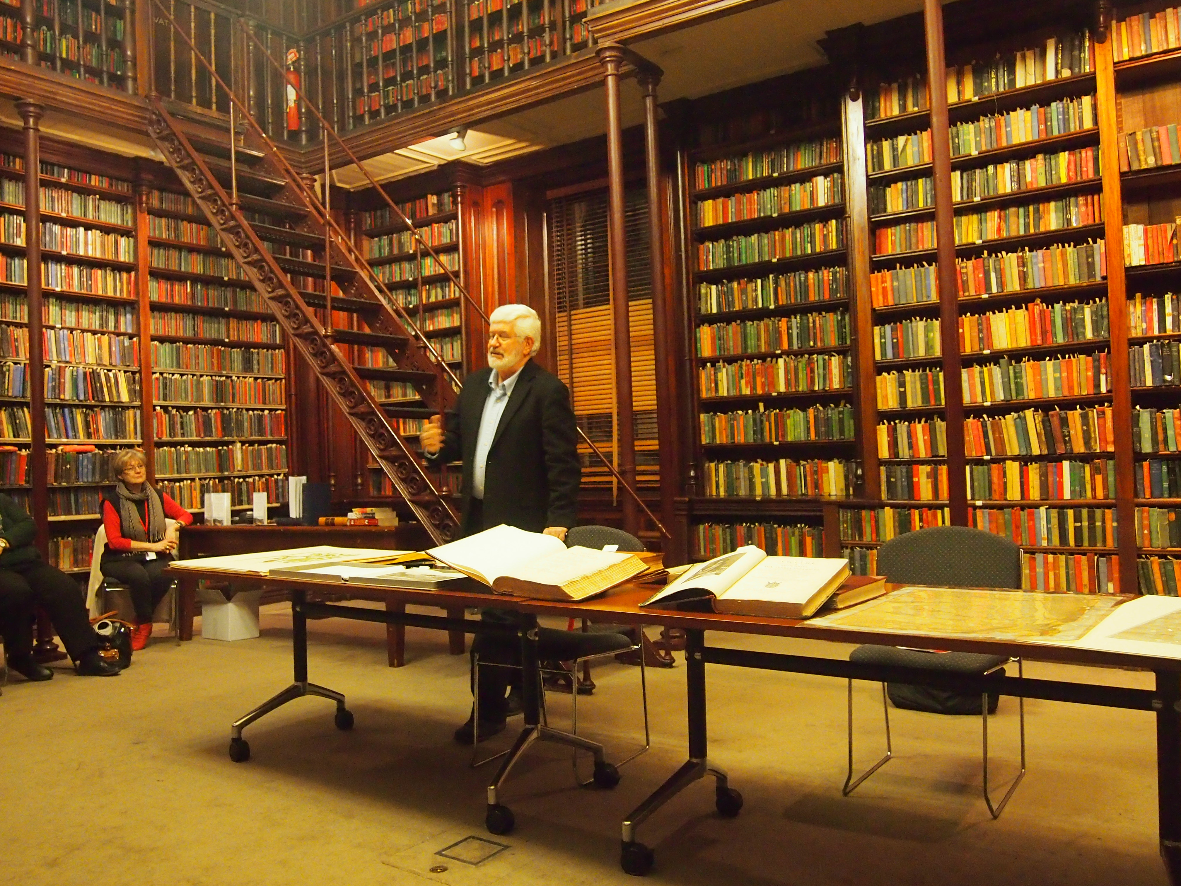 Using items from the rare books collection, Keith Conlon gives a talk on the 200th anniversary of Matthew Flinders's death, in the Circulating Library room of the historic Institute Building, part of the State Library of South Australia, on 21 July 2014. Original Filename = P7213449.JPG